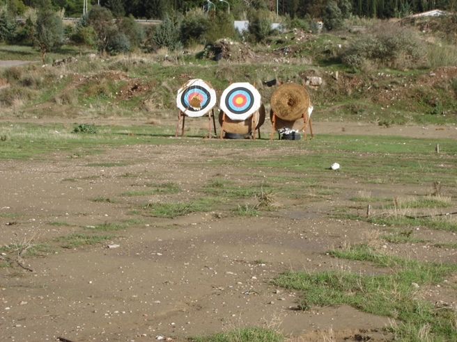 A.S.S.A., Archery & Shooting Sport Club Achaea